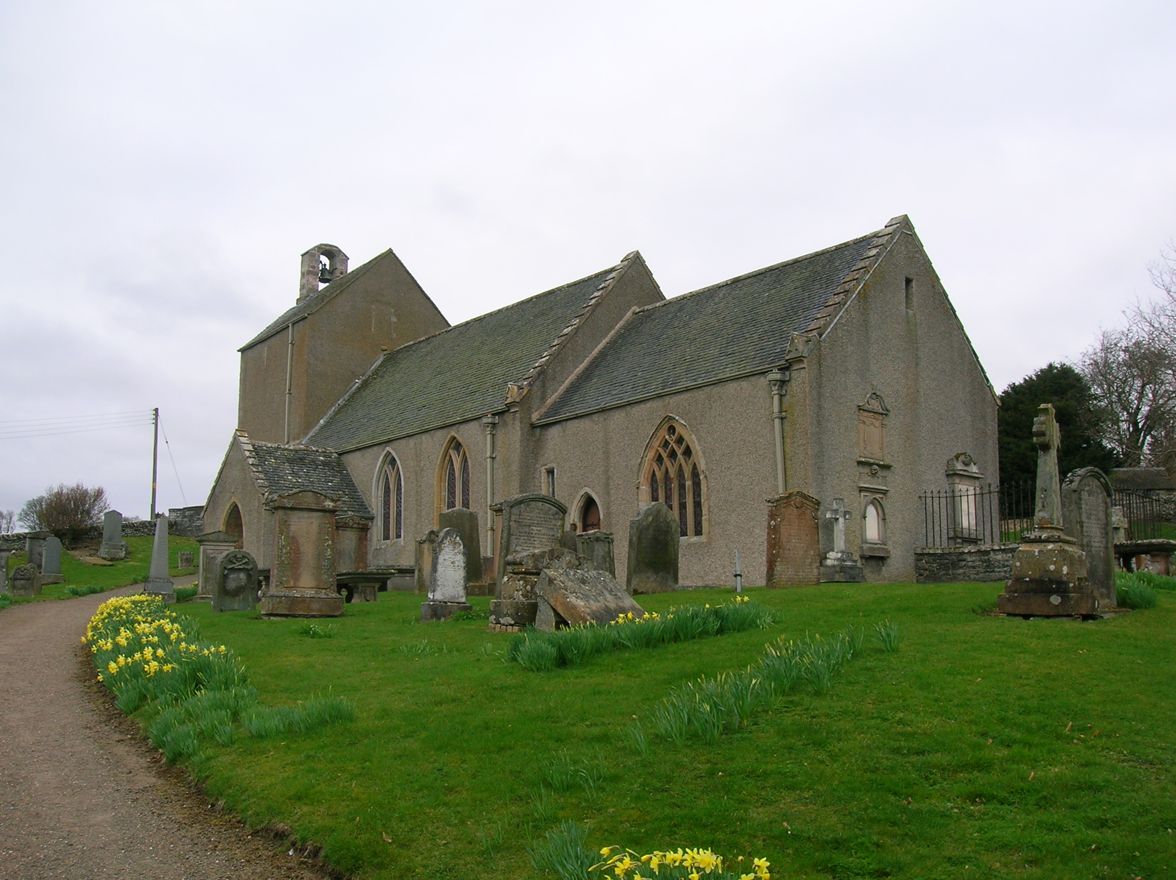 Stobo Kirk, Borders, Scotland